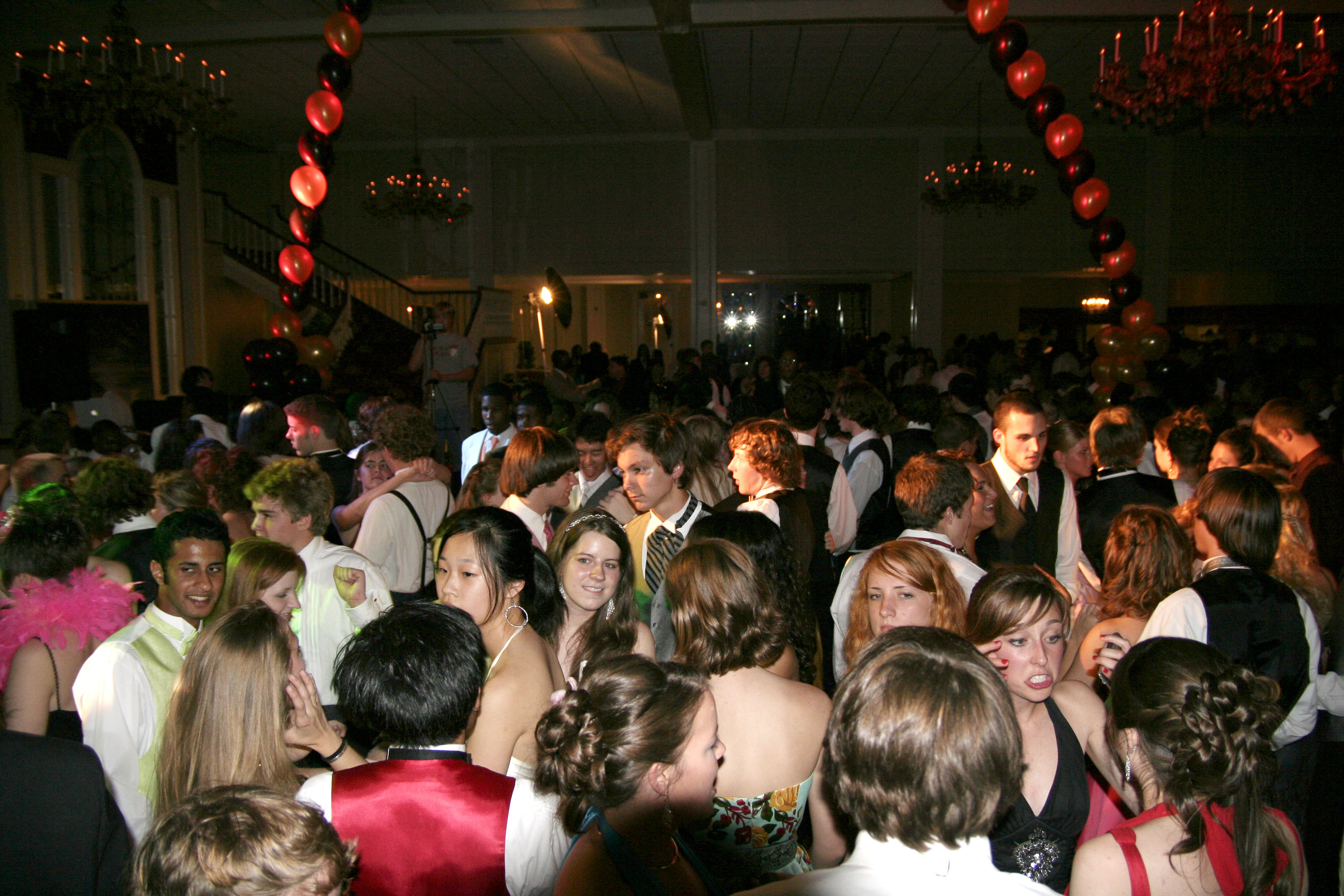 Photograph of interior of unidentified building with unidentified people.